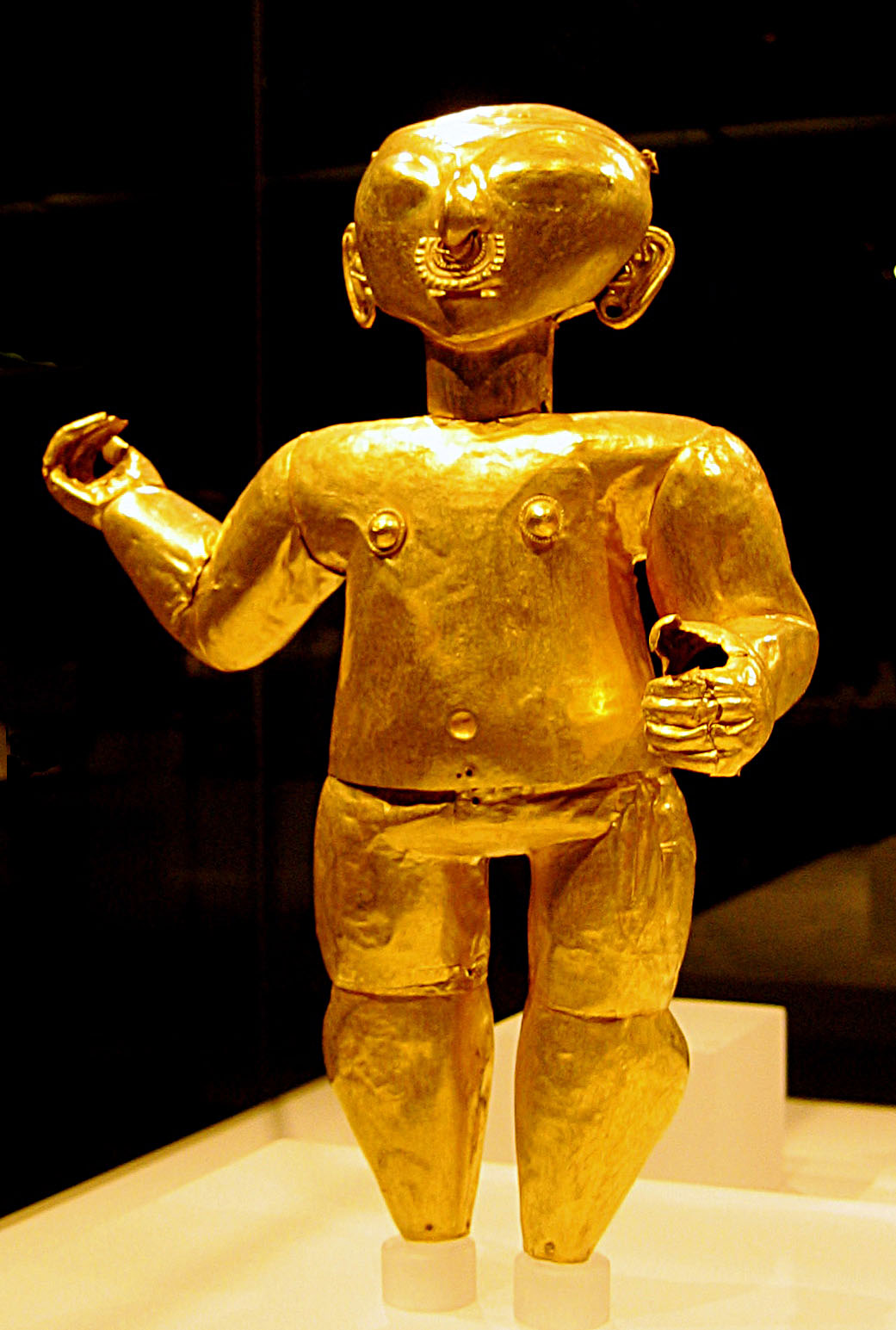 Original caption from photographer "Rosemaniakos" on Flickr: Standing Figure, 1st century B.C. - A.D. 1st century Origin: Colombia or Ecuador; Tolita/Tumaco Material: Gold (hammered); H. 9 in. (22.9 cm) Metropolitan # (1995.427) The three-dimensional figures of the Tolita-Tumaco area are among the most striking of Precolumbian gold objects. The present example is particularly distinguished by its fancy nose ornament, evidence that some form of headdress was once present, and by the position of the hands, which originally held objects now missing. The feet too have been lost. Made of many pieces of high-quality sheet gold, the figure may have been clothed for special occasions. The Tolita-Tumaco style area crosses the Colombia-Ecuador border along the humid Pacific coast.